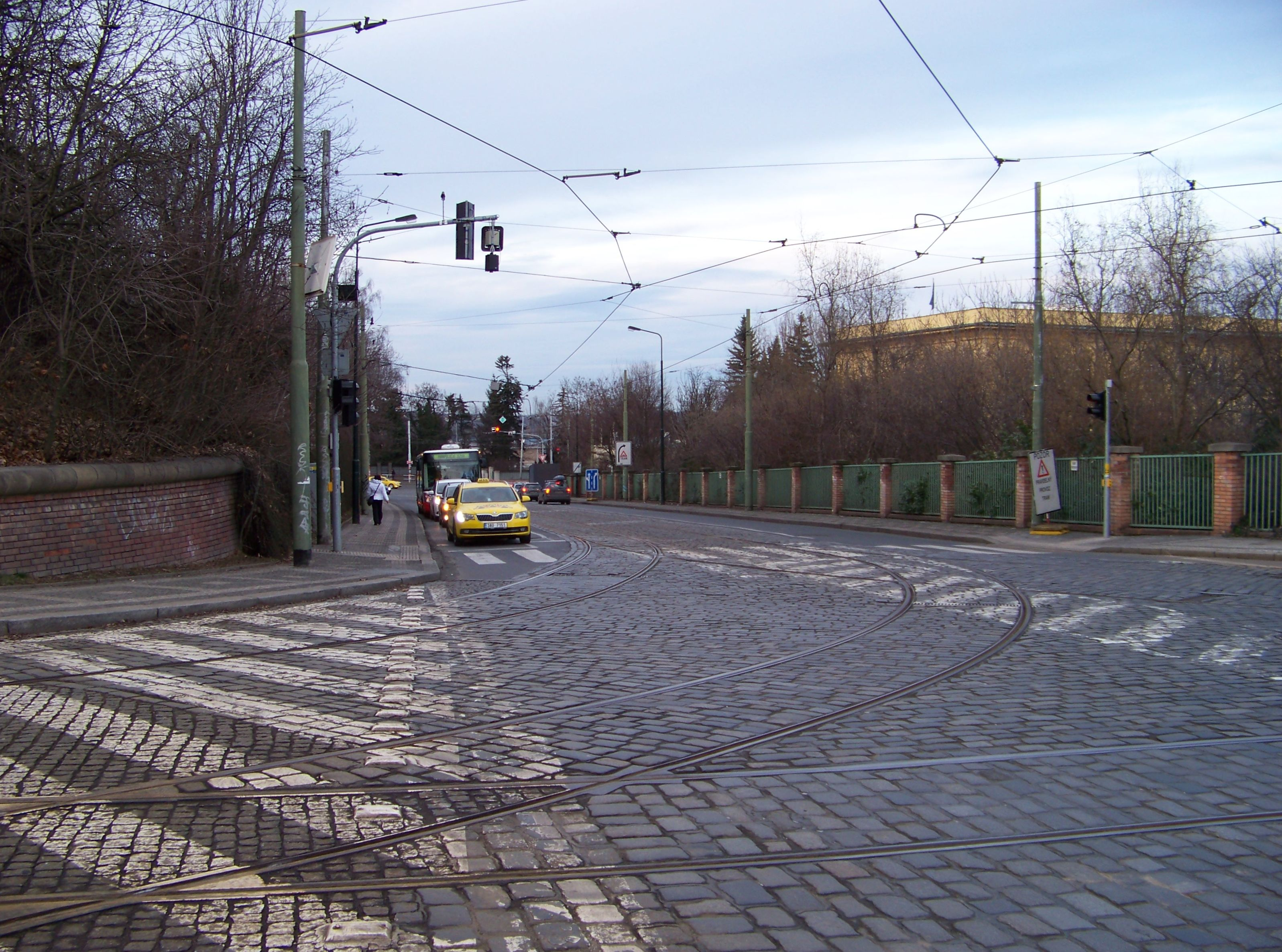 Prague-Hradčany, Czech Republic. U Brusnice street, from Jelení street. - Google Maps - Google Earth